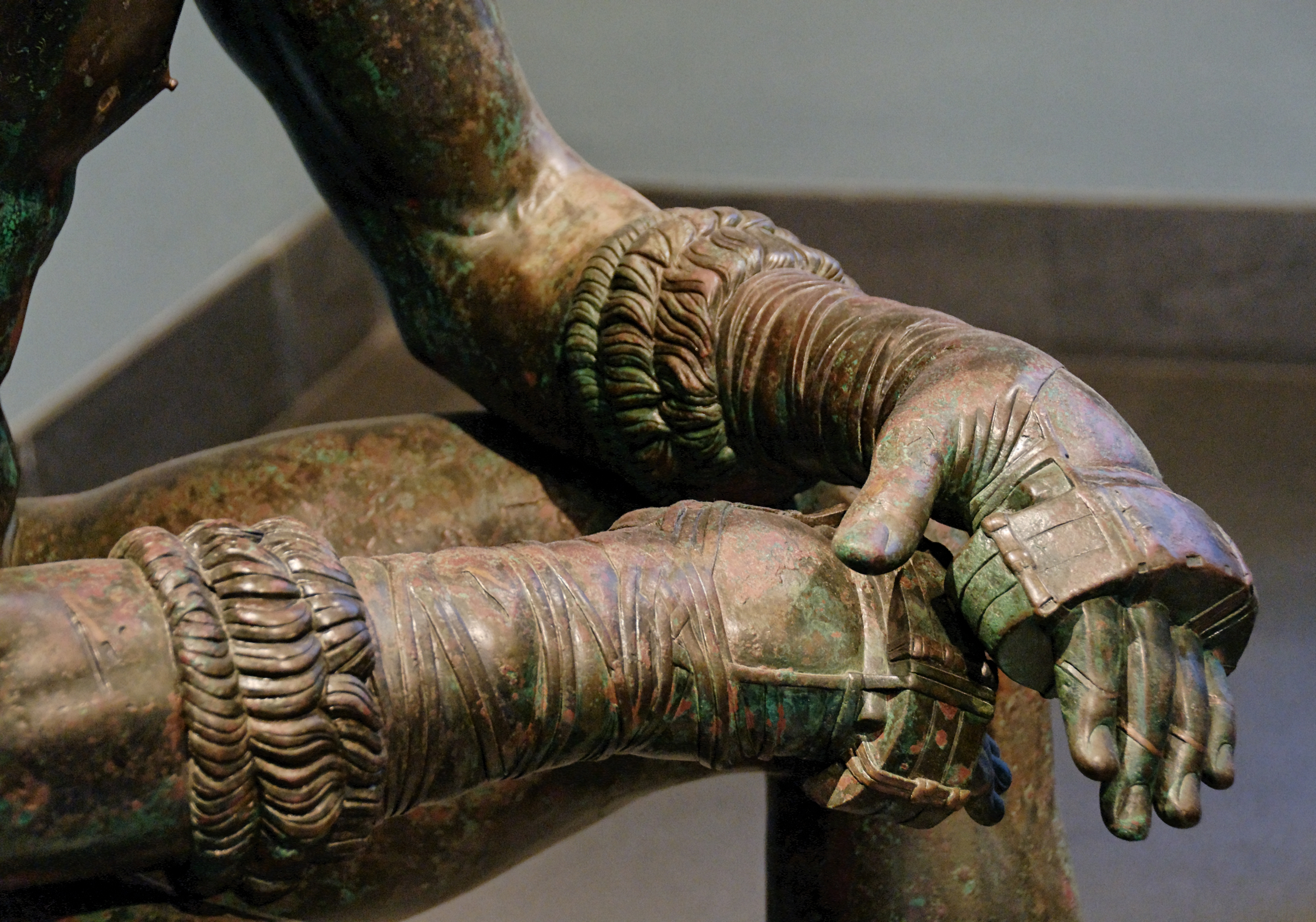 So-called “Thermae boxer”: athlete resting after a boxing match. Bronze, Greek artwork of the Hellenistic era, 3rd-2nd centuries BC (the boulder is modern and replicates the ancient one). From the Thermae of Constantine.